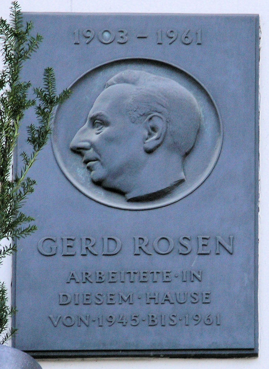 Memorial plaque, Gerd Rosen, Kurfürstendamm 215, Berlin-Charlottenburg, Germany